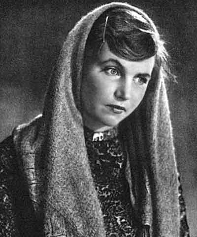 Tamara Makarova in The New Teacher (1939) (Uchitel).